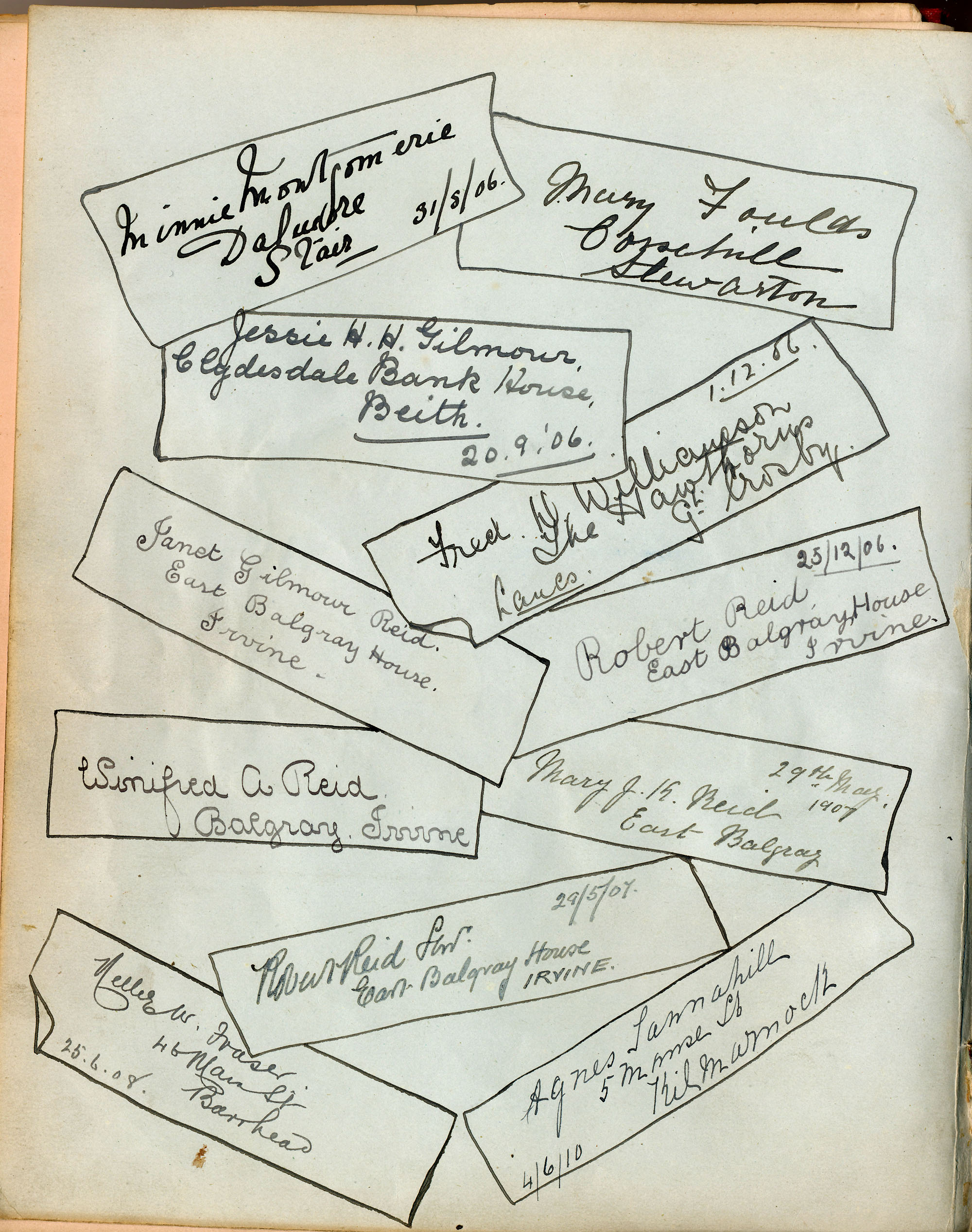 A page from the Bonshaw House visitor book, North Ayrshire, Scotland.